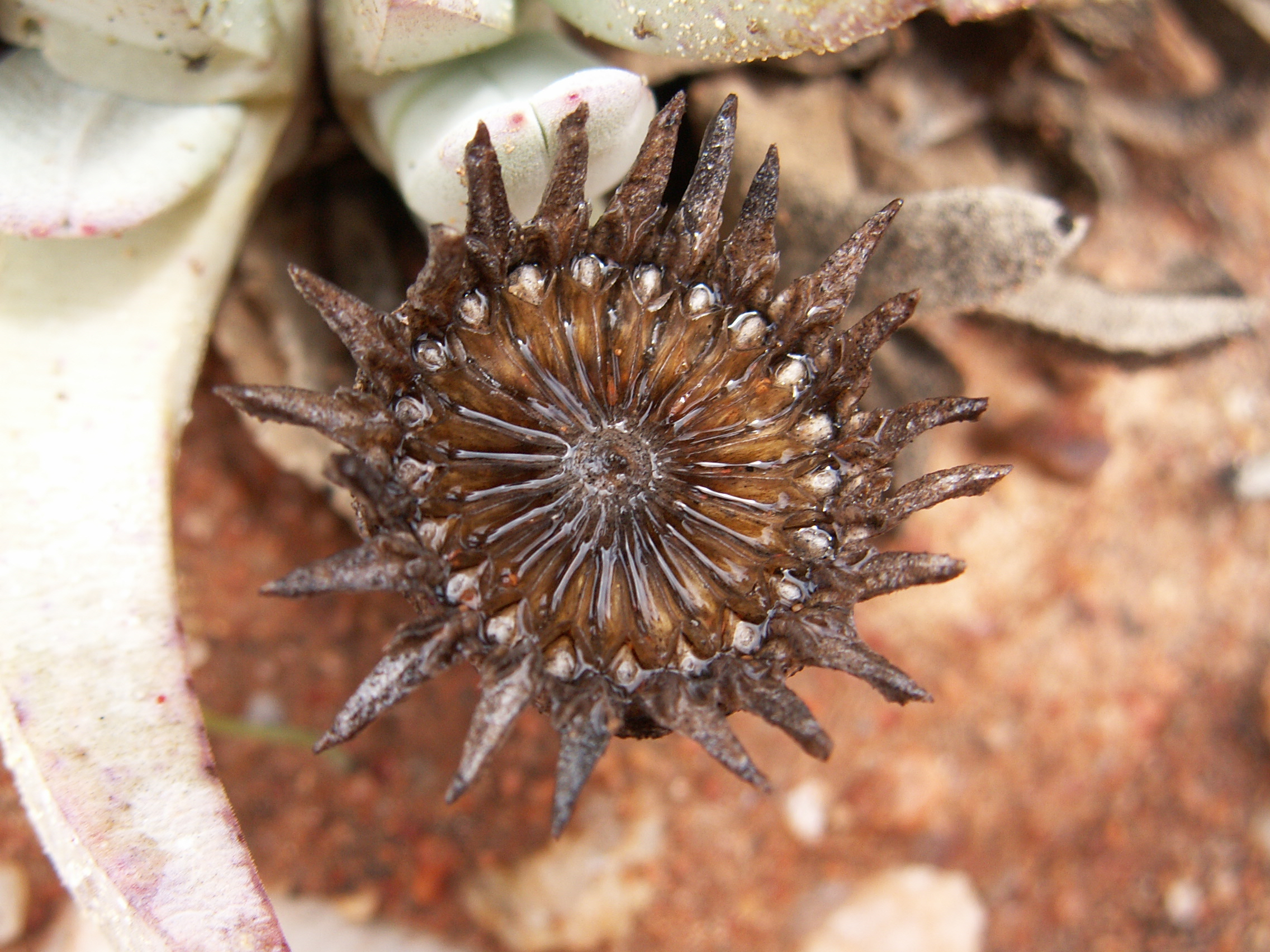 Cheiridopsis denticulata, close up photo fruit, seed capsula, Aizoaceae, Richtersveld National Park, Richtersveld Local Municipality, Namakwa District Municipality, Northern Cape, South Africa